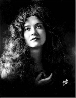 Maude Fealy